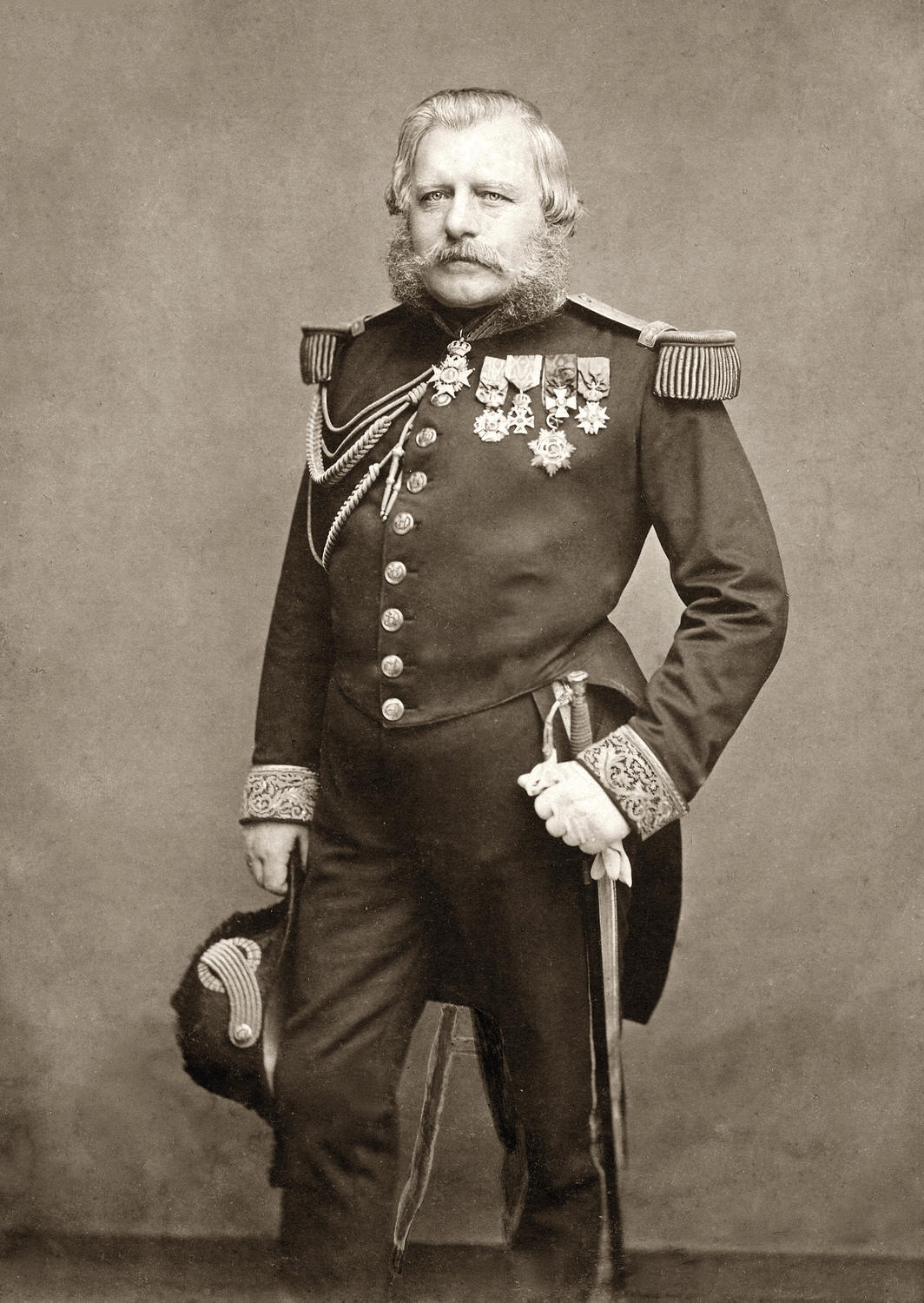 Adrien Goffinet posing for Louis Ghémar (early 1860's)